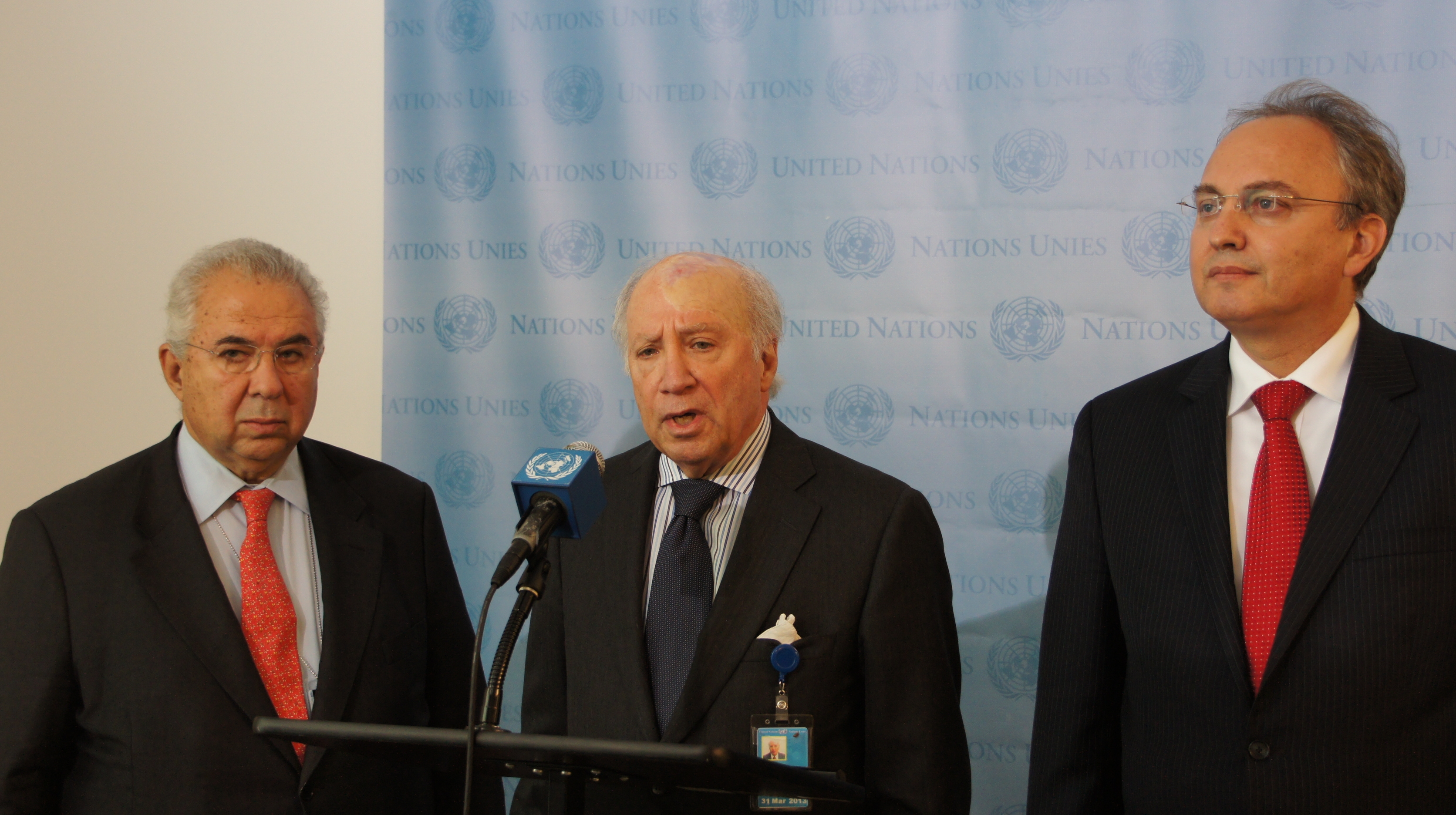 UN Mediator Matthew Nimetz with Ambassadors Jolevski and Vassilakis at a press conference after the November Round of Negotiations